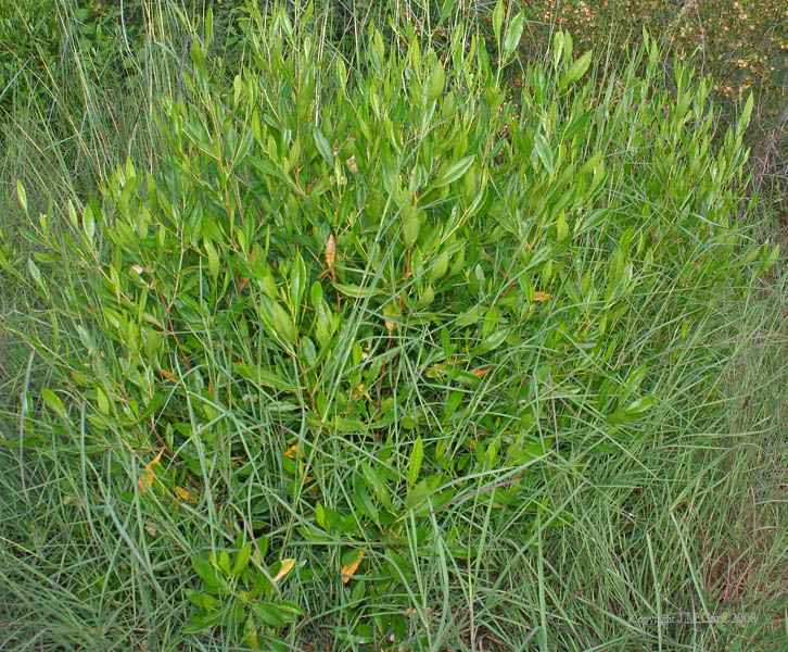 Sticky hop bush, Hopseed, Hopbush, Akeake or Aalii Dodonaea viscosa in Hyderabad , India.